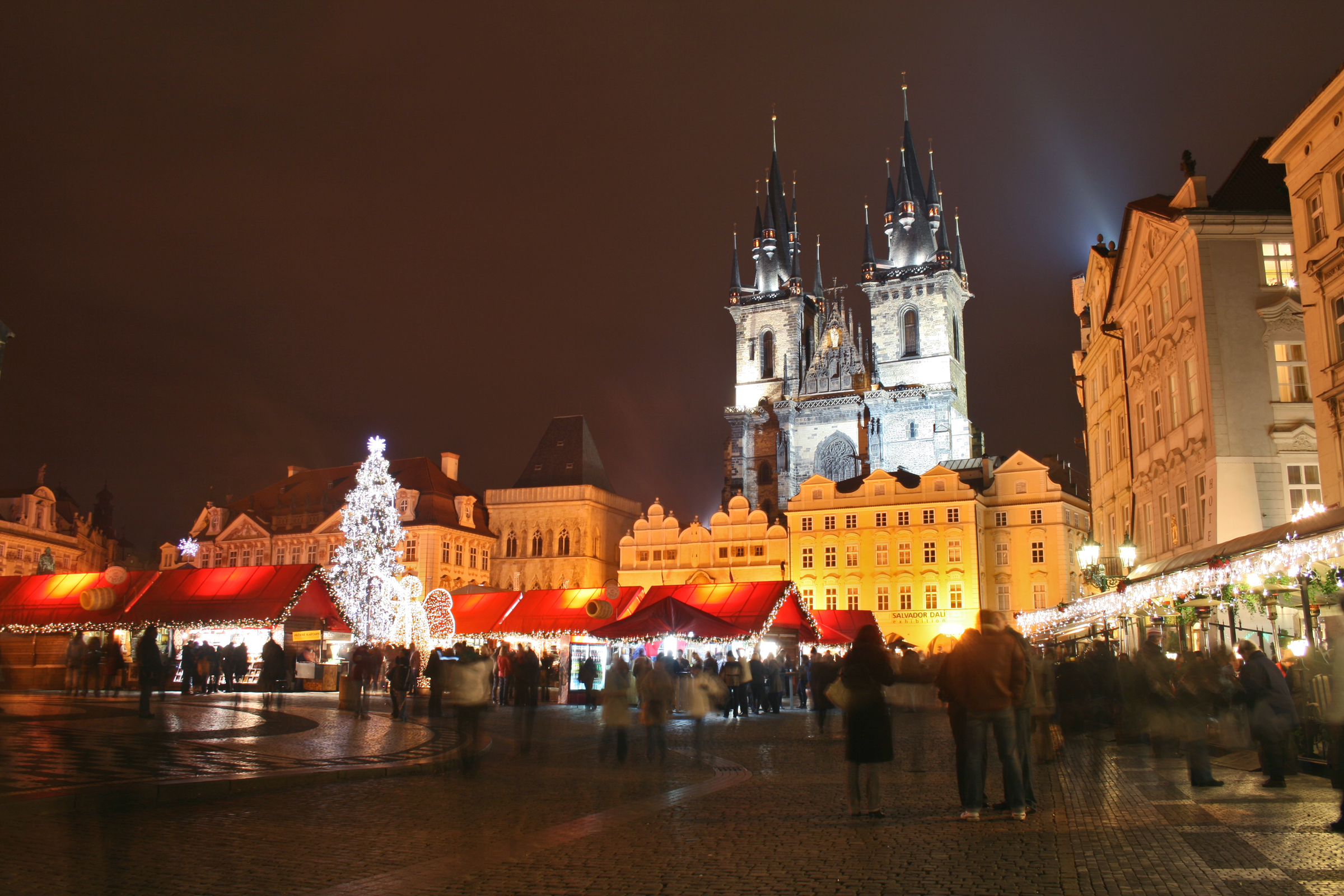 Christmas market on Old Town Square, with Church of Our Lady in front of Týn on background, Prague 2008